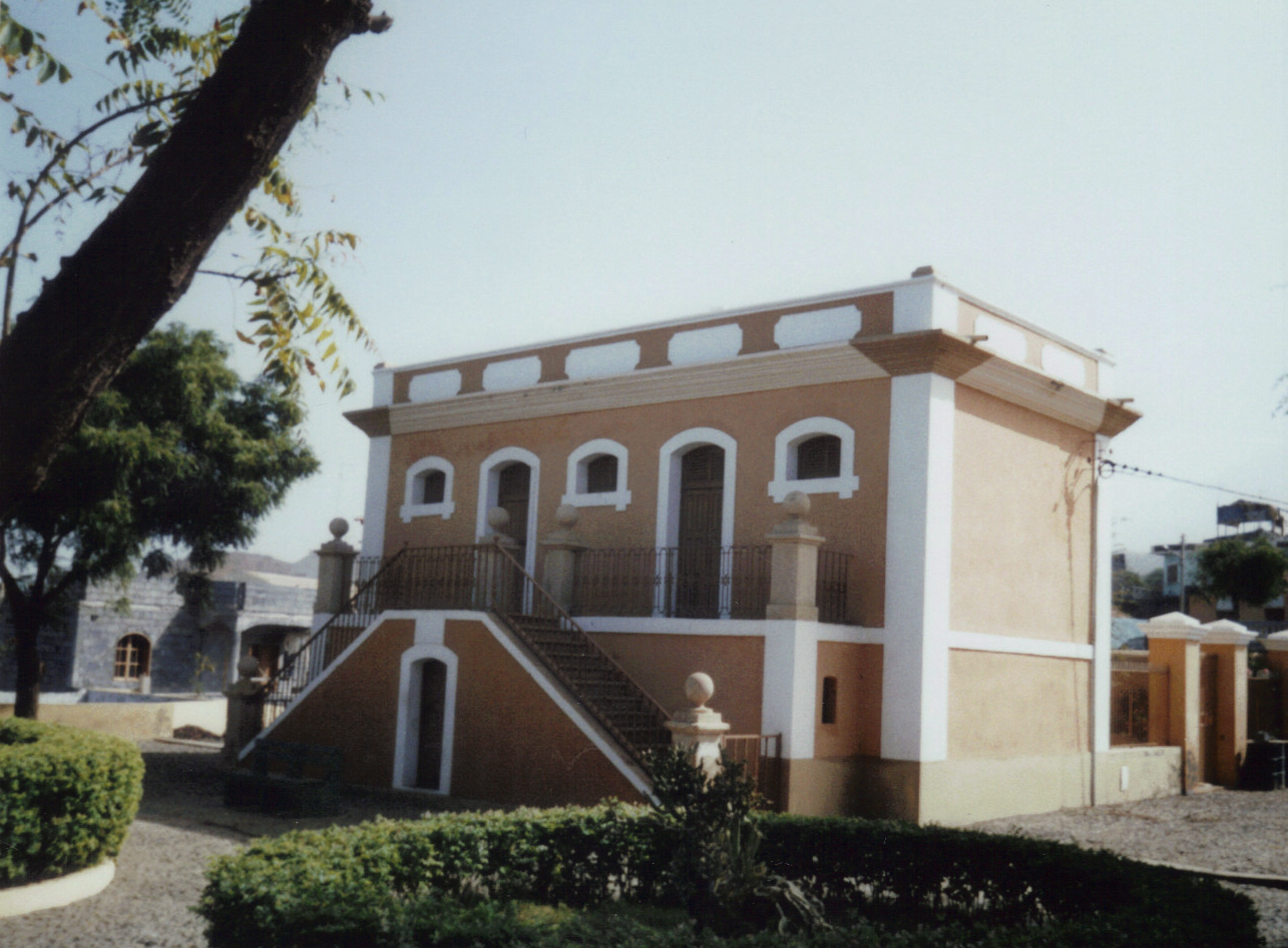 Colonial mansion, São Filipe, island of Fogo. Cabo Verde